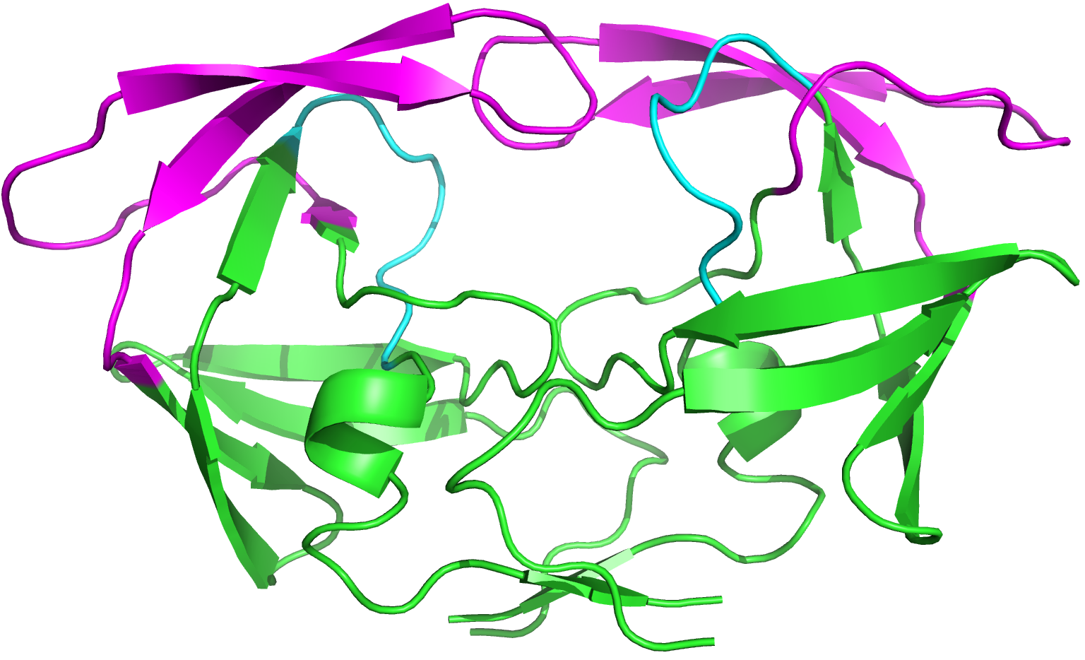 HIV-1 protease, flaps (33-62 residues) are coloured magenta, 80's loops (78-85 residues) - cyan. PDB ID: 1GNO.